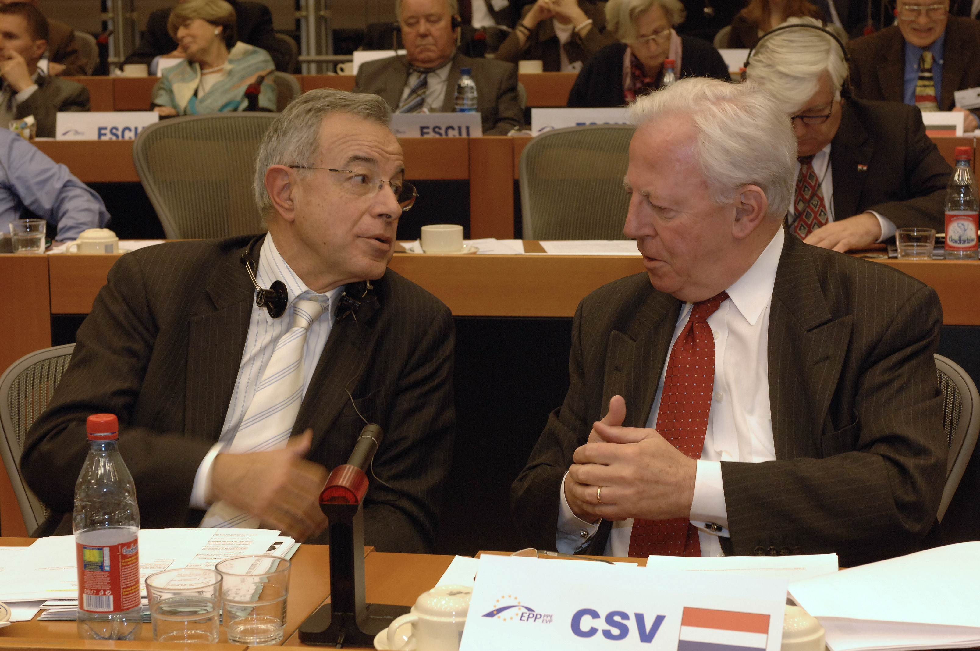 EPP Political Bureau 9 November 2006